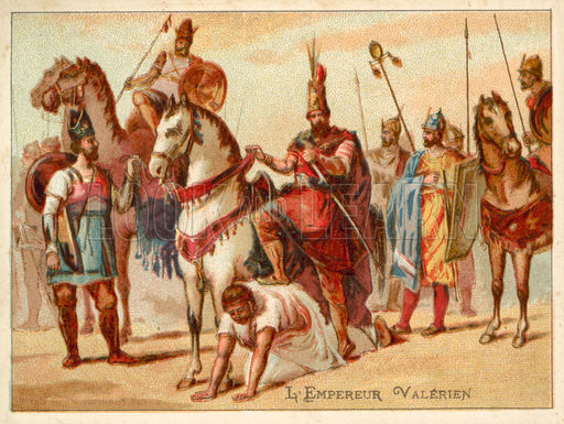 The Persian King Shapur I using the captured Roman Emperor Valerian as a footstool